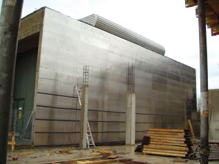 Industrial building with Magnoshield protective plates, Magnetfeld-Aaronia AG